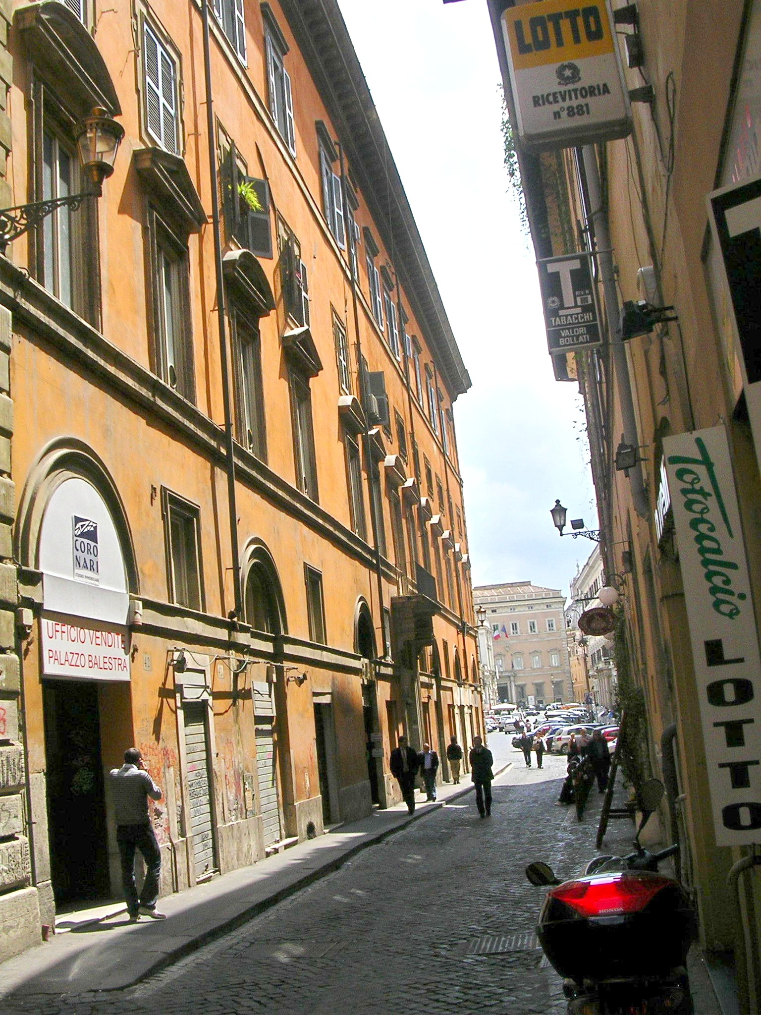 Palazzo Muti-side elevation photographed by User:Giano 2010